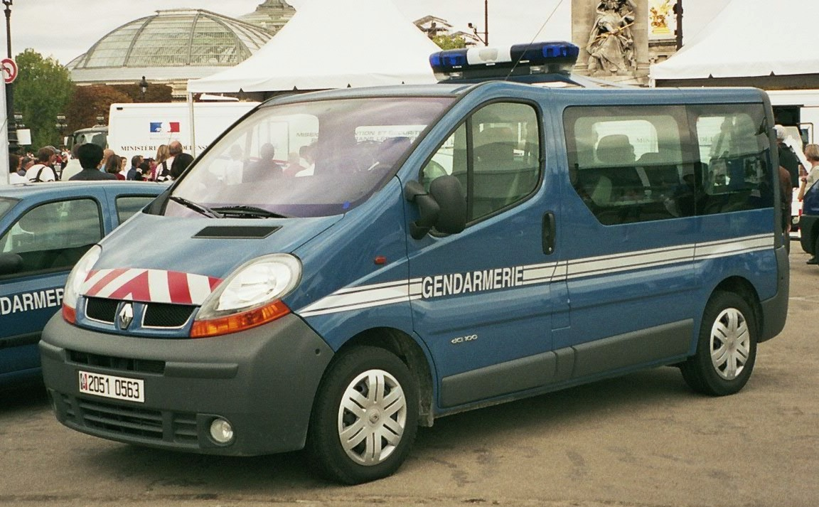 Nation/Defense days, Esplanade des Invalides, Paris, France, September 24-25, 2005